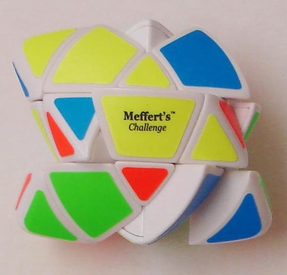 Mèffert's pillowed Master Pyramorphix, scrambled.